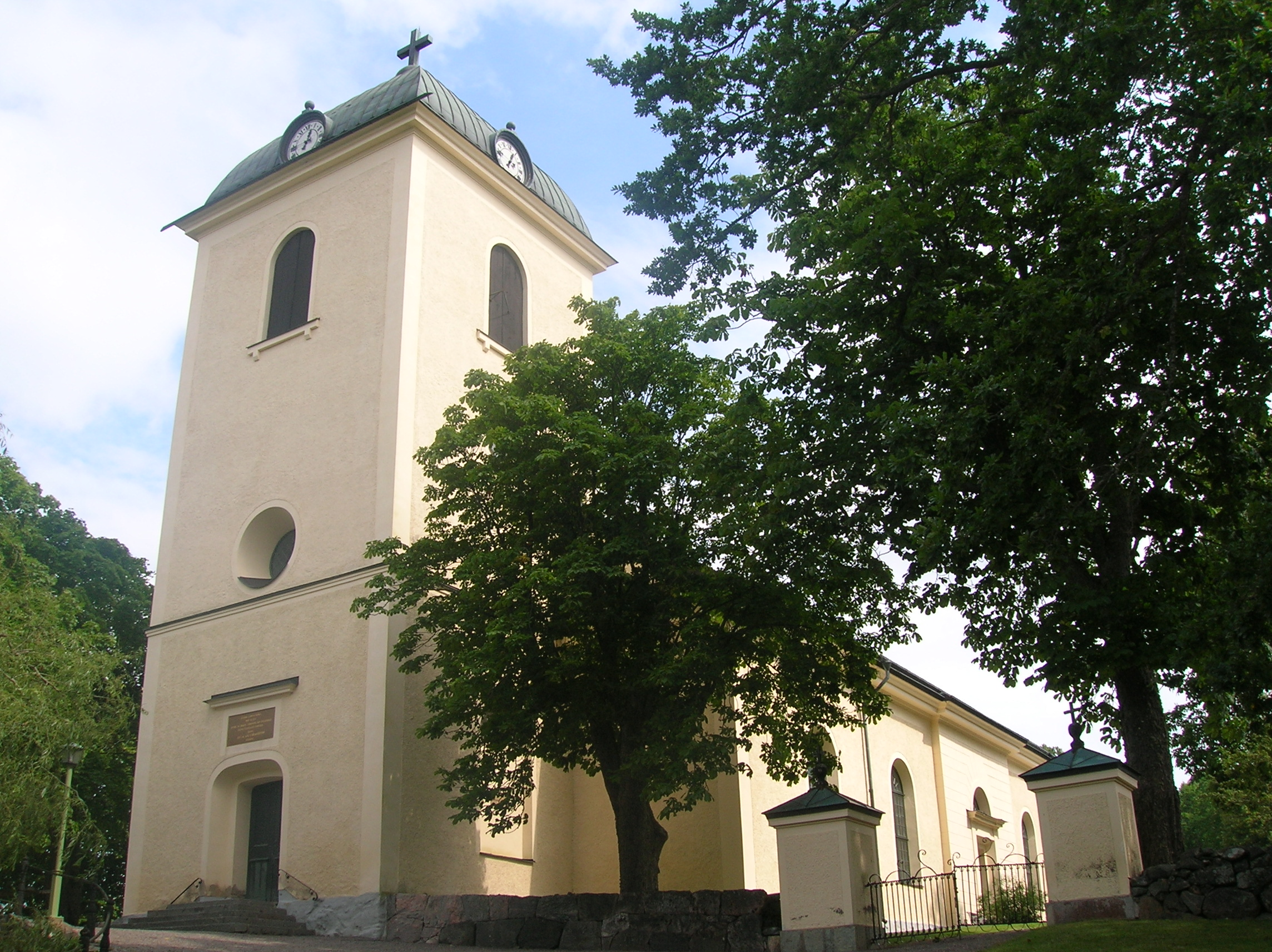 S:t Anna church, 30 kilometers southeast of Söderköping, Östergötland, Sweden